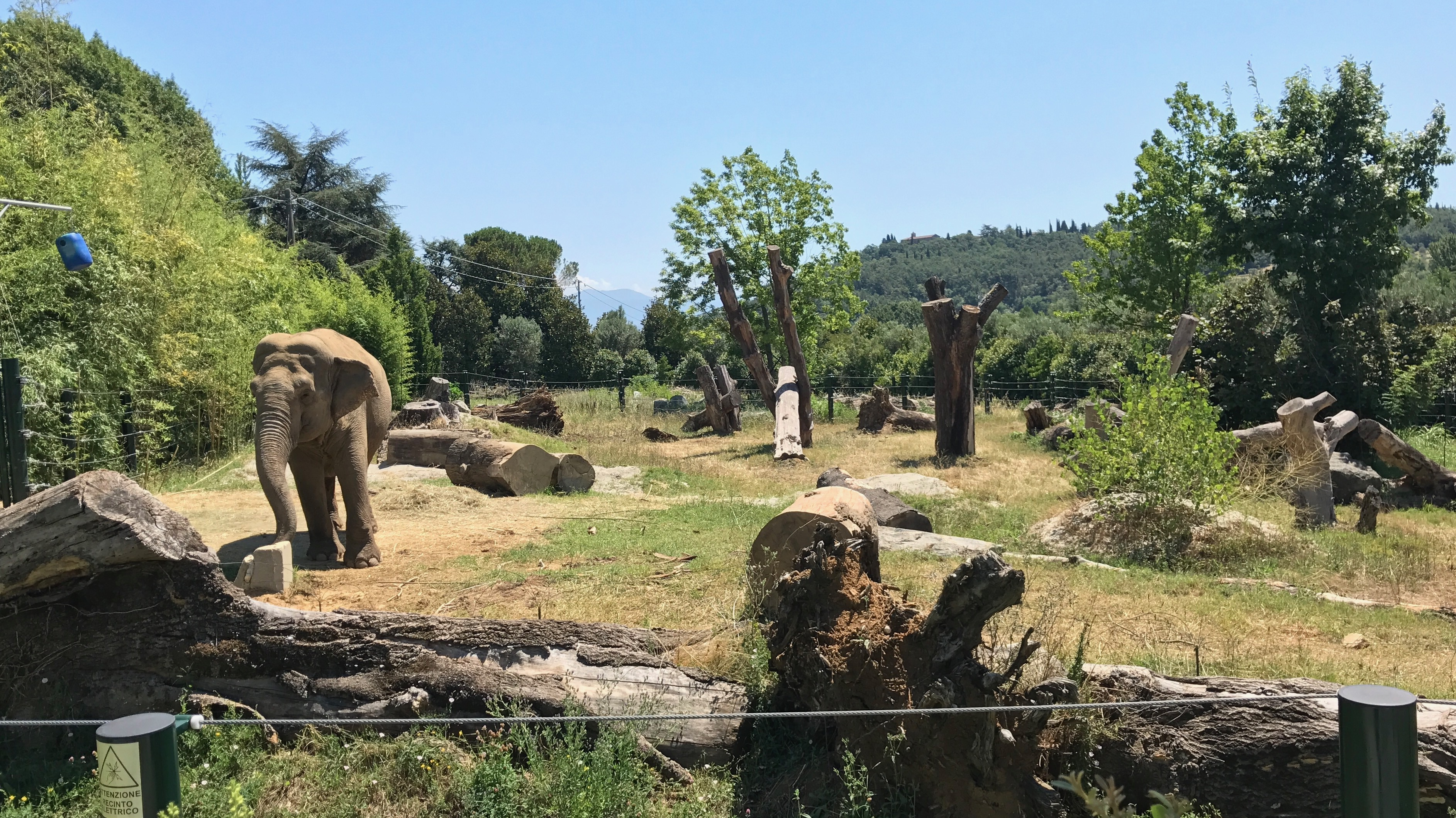 Female asian elephant (Elephas maximus), named Savana, in the new exhibit (opened in 2016/7) at the Giardino zoologico di Pistoia (Pistoia zoo)